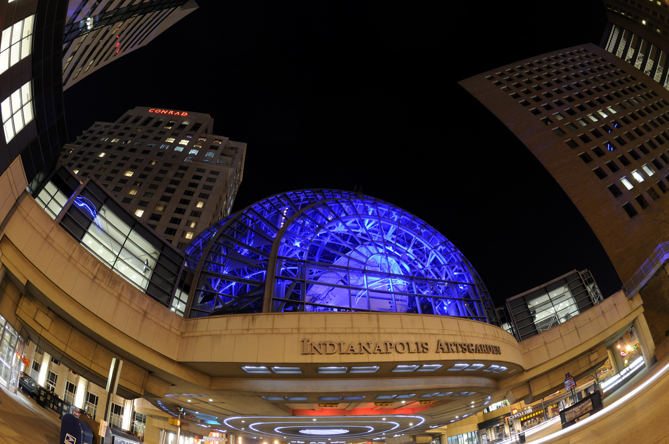 the famous Arts Garden. Fisheye lens More reading here